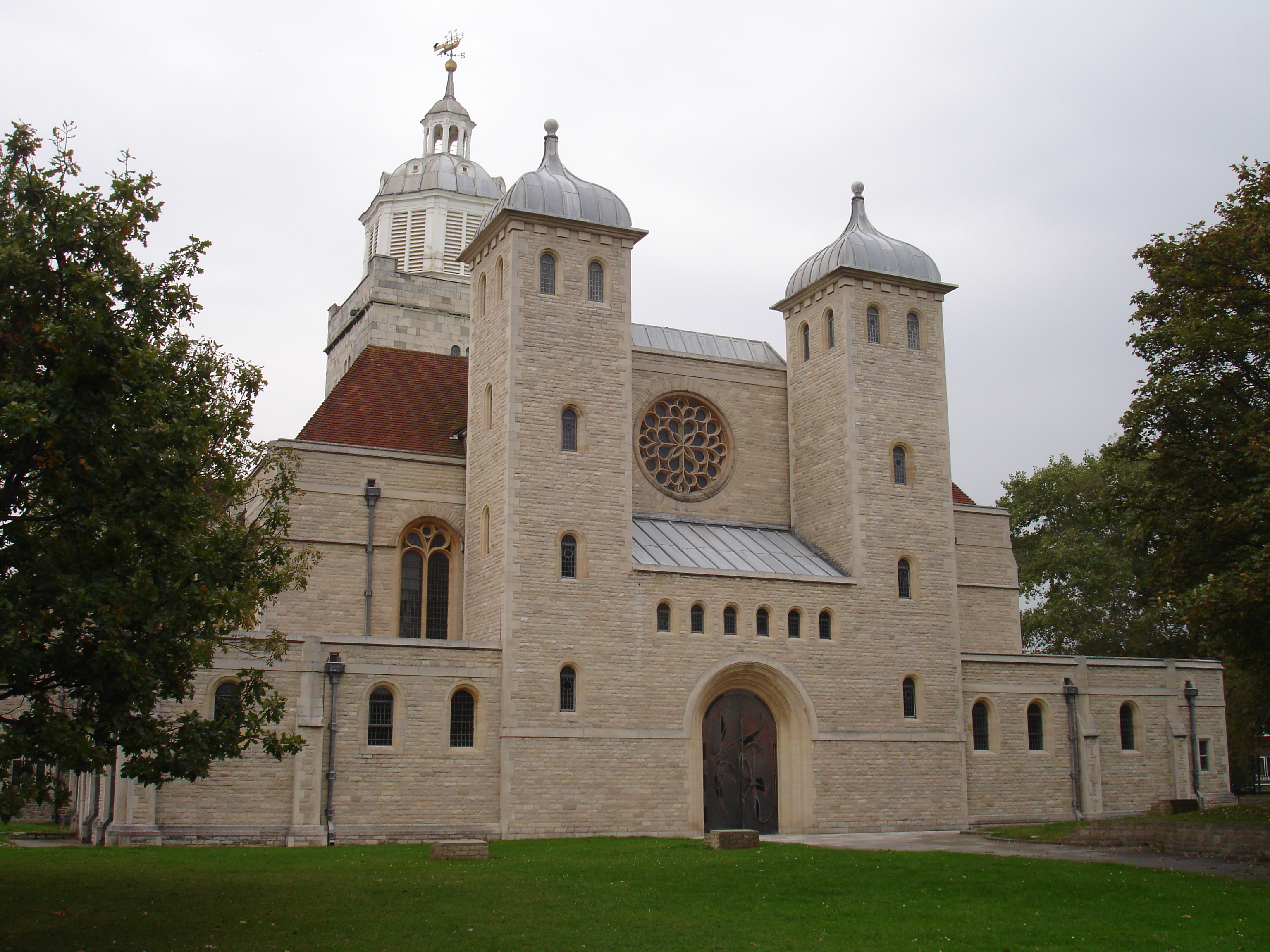 Photograph of the West End of Portsmouth Cathedral, Hampshire, England